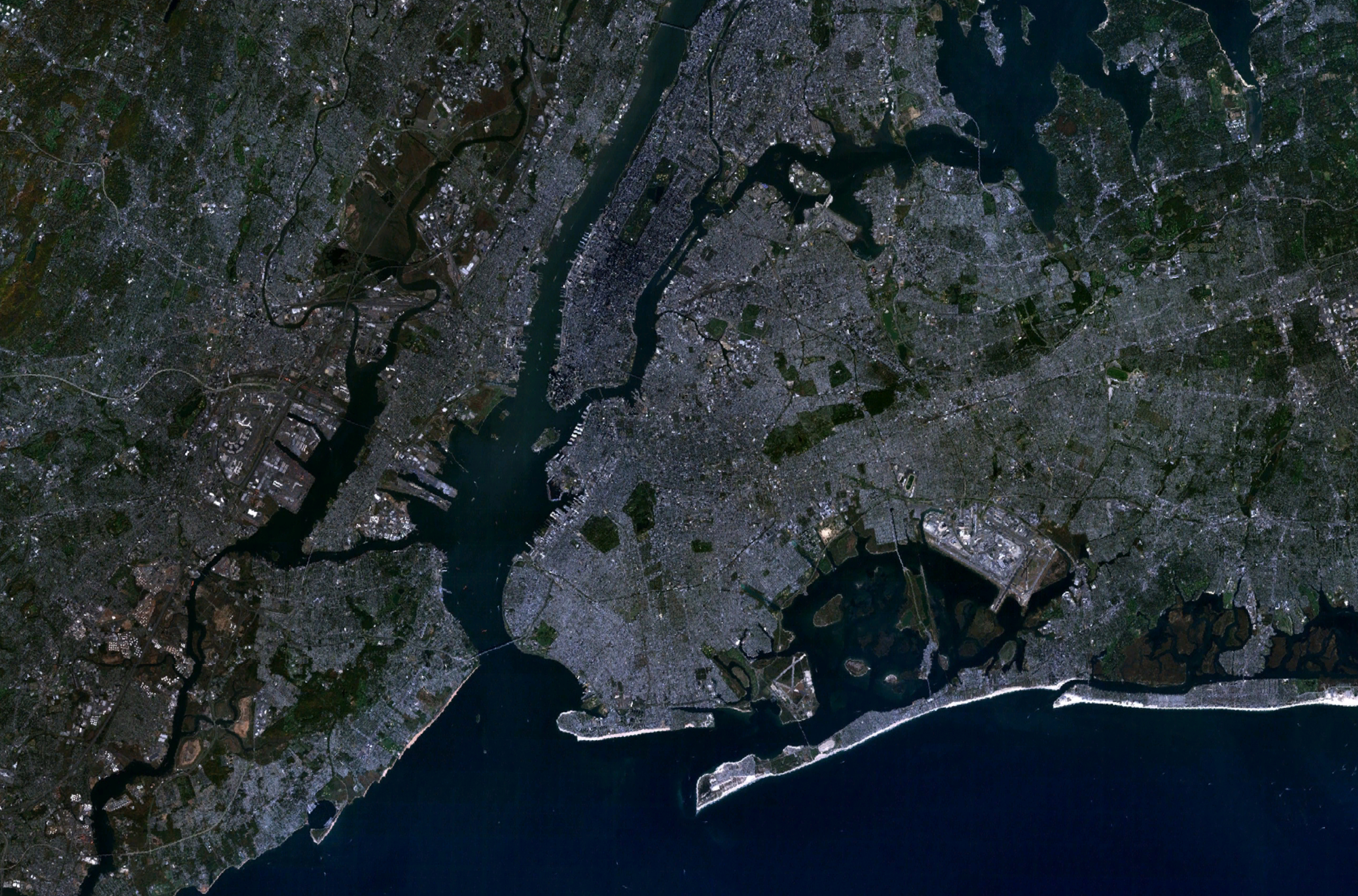 Satellite (Landsat7) collage of New York City